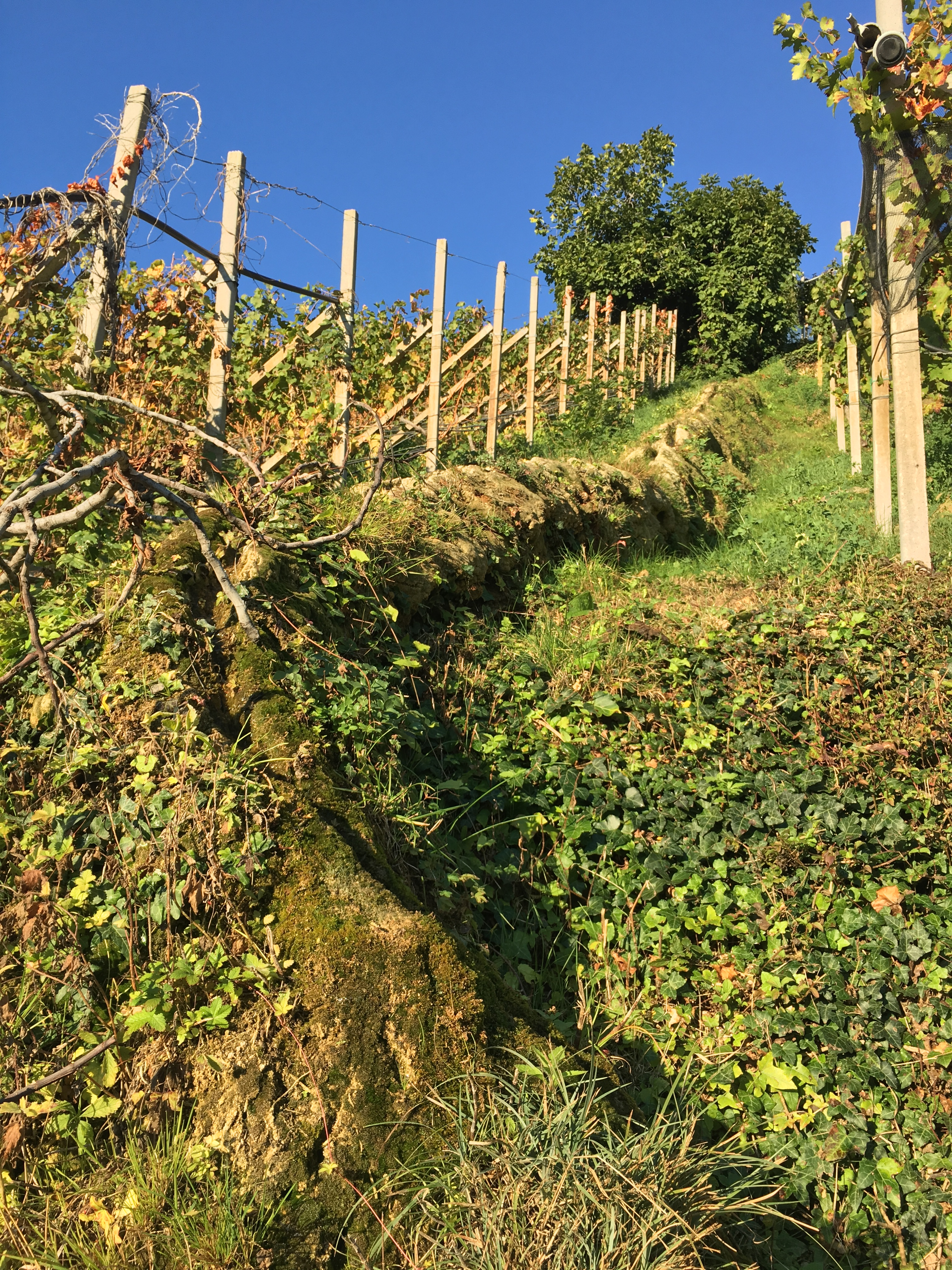 Kurtatsch Naturdenkmal Kalksinterquelle, nordöstlich des Friedhofs Richtung Rungg